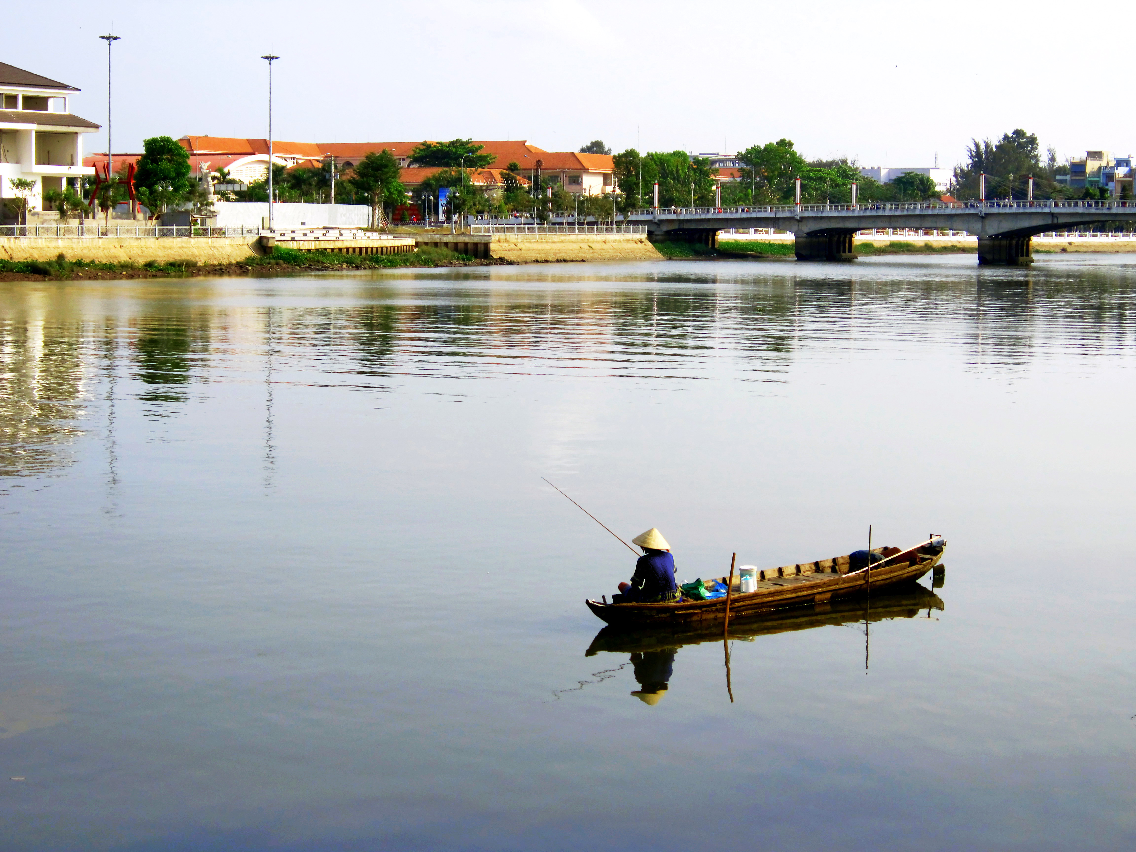 Ngồi xuồng câu cá trên sông Long Xuyên (An Giang, Việt Nam).